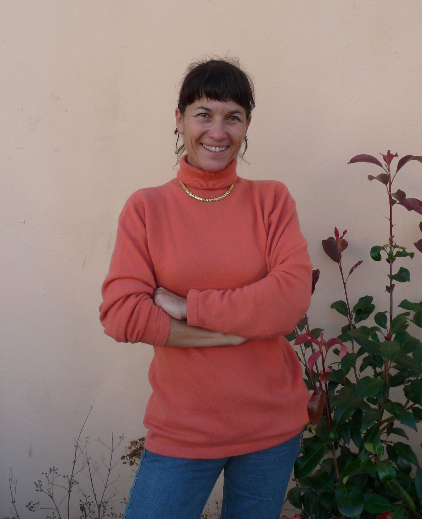 French explorer Jéromine Pasteur